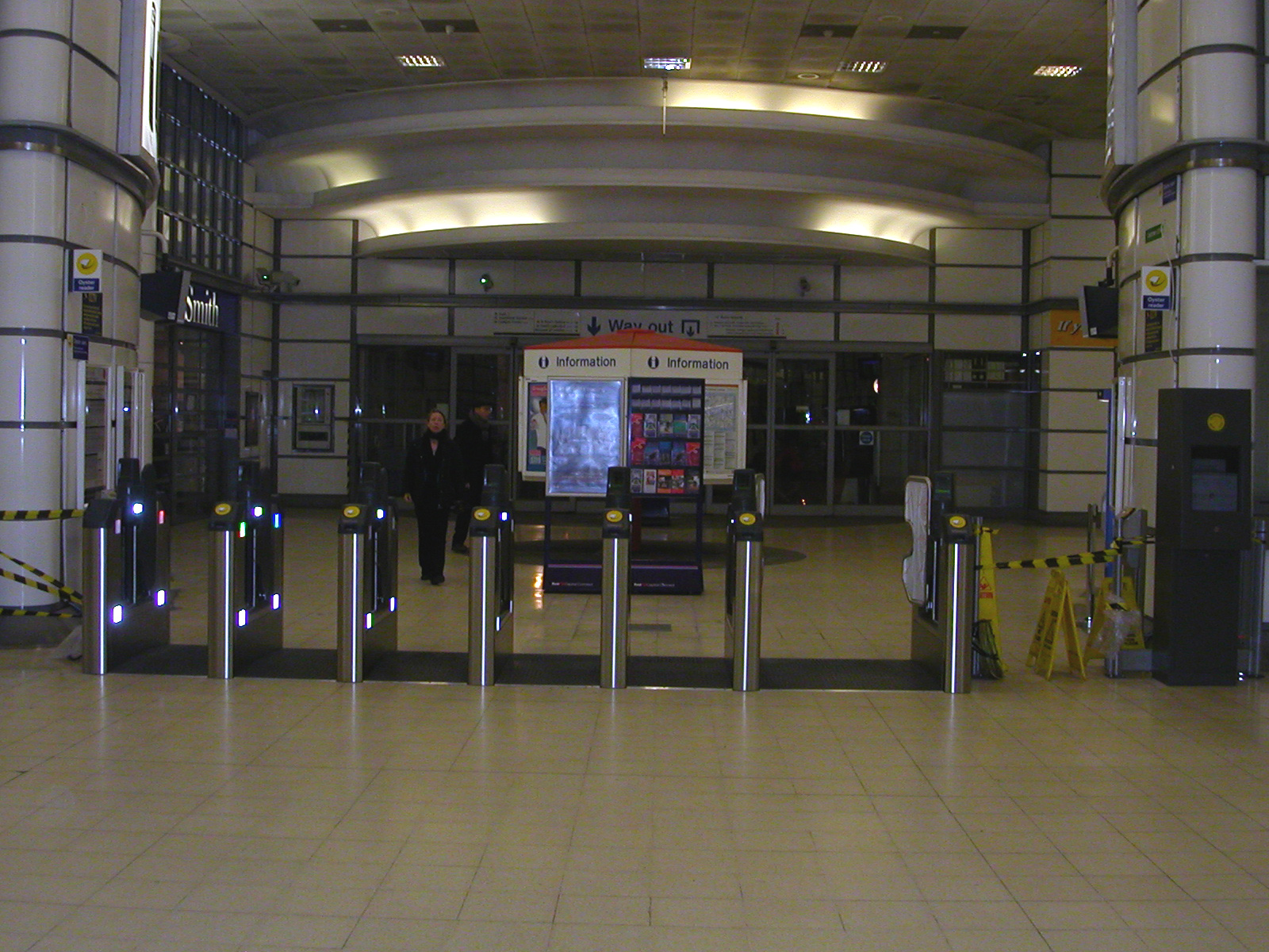 Ludgate Hill concourse at City Thameslink, looking towards the main exit.